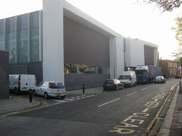 Eltham Centre, South Greenwich's newest leisure centre.